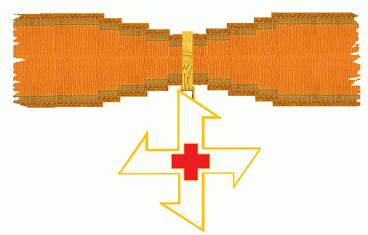 Cross of Queen Marie of Romania 1917 First Class on war ribbon